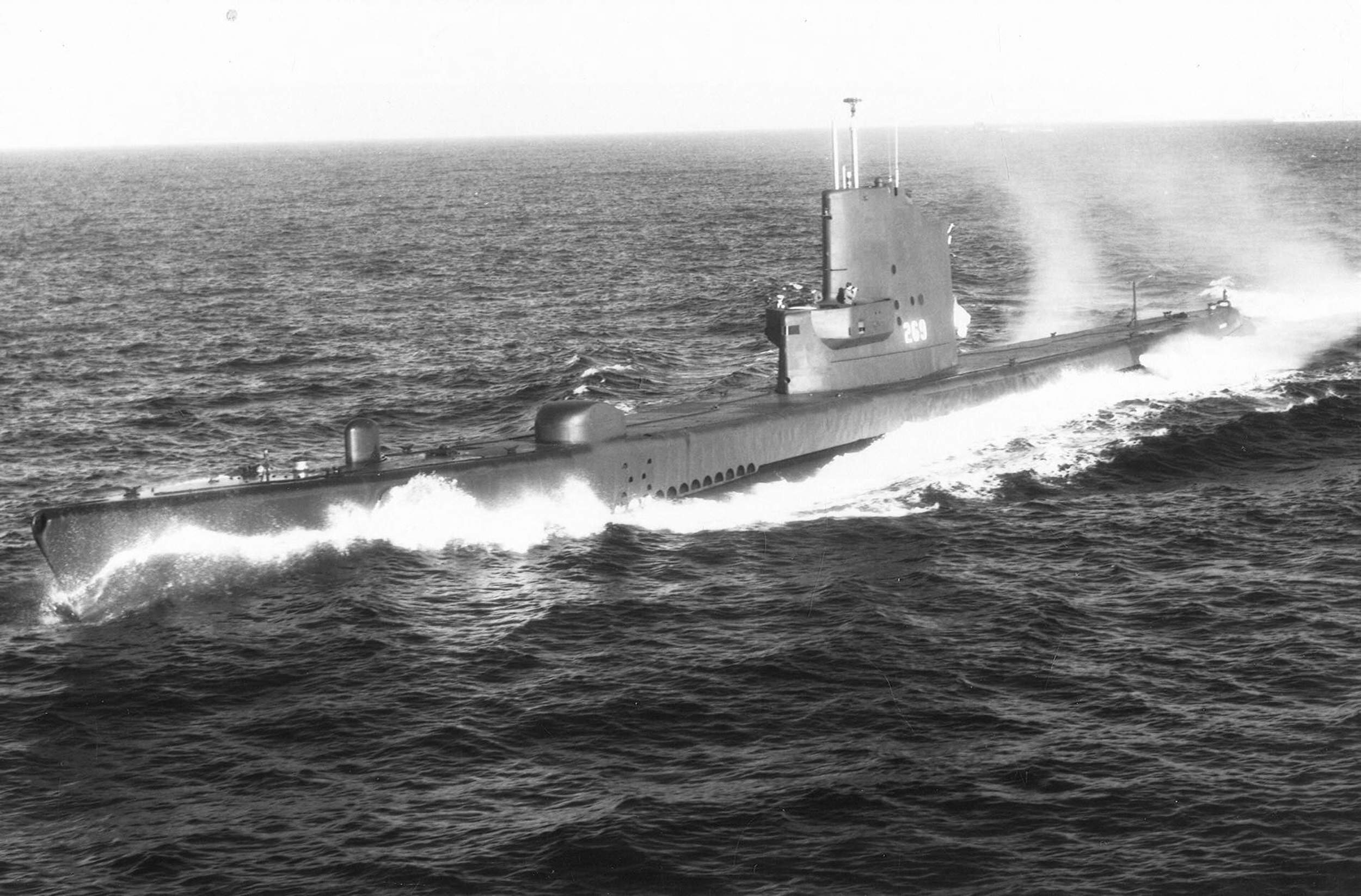 Submarine USS Rasher engaged in strike exercises involving other American and Canadian ships. 1964.